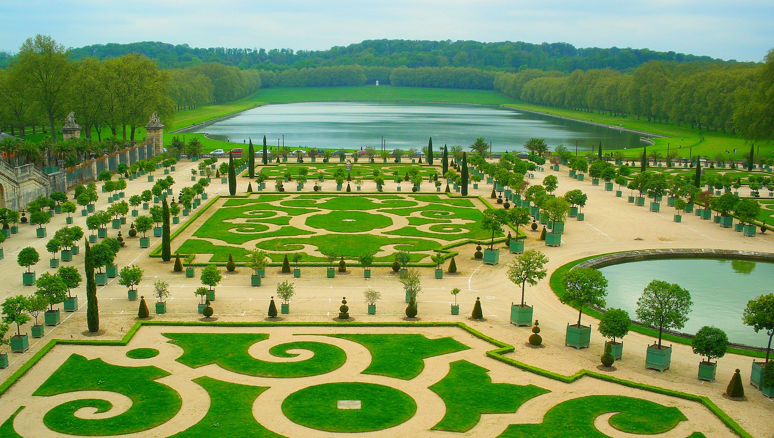 Parterre garden at the Orangery of Versailles, and Pièce d'eau des Suisses — Park of Versailles.